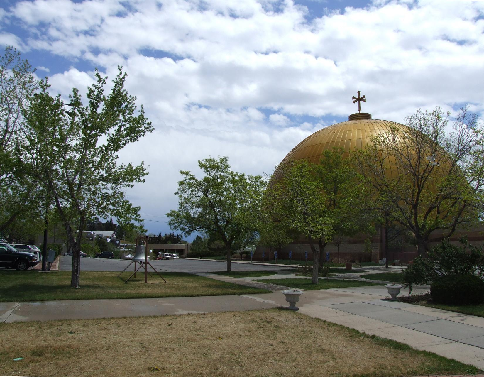 On the other side of the road from the Jewish Community Center is this unusual Christian cathedral. An announcement in the carpark stated that violators would be prosecuted. But that didn't stop some of the visitors to the Jewish celebrations from parking there.